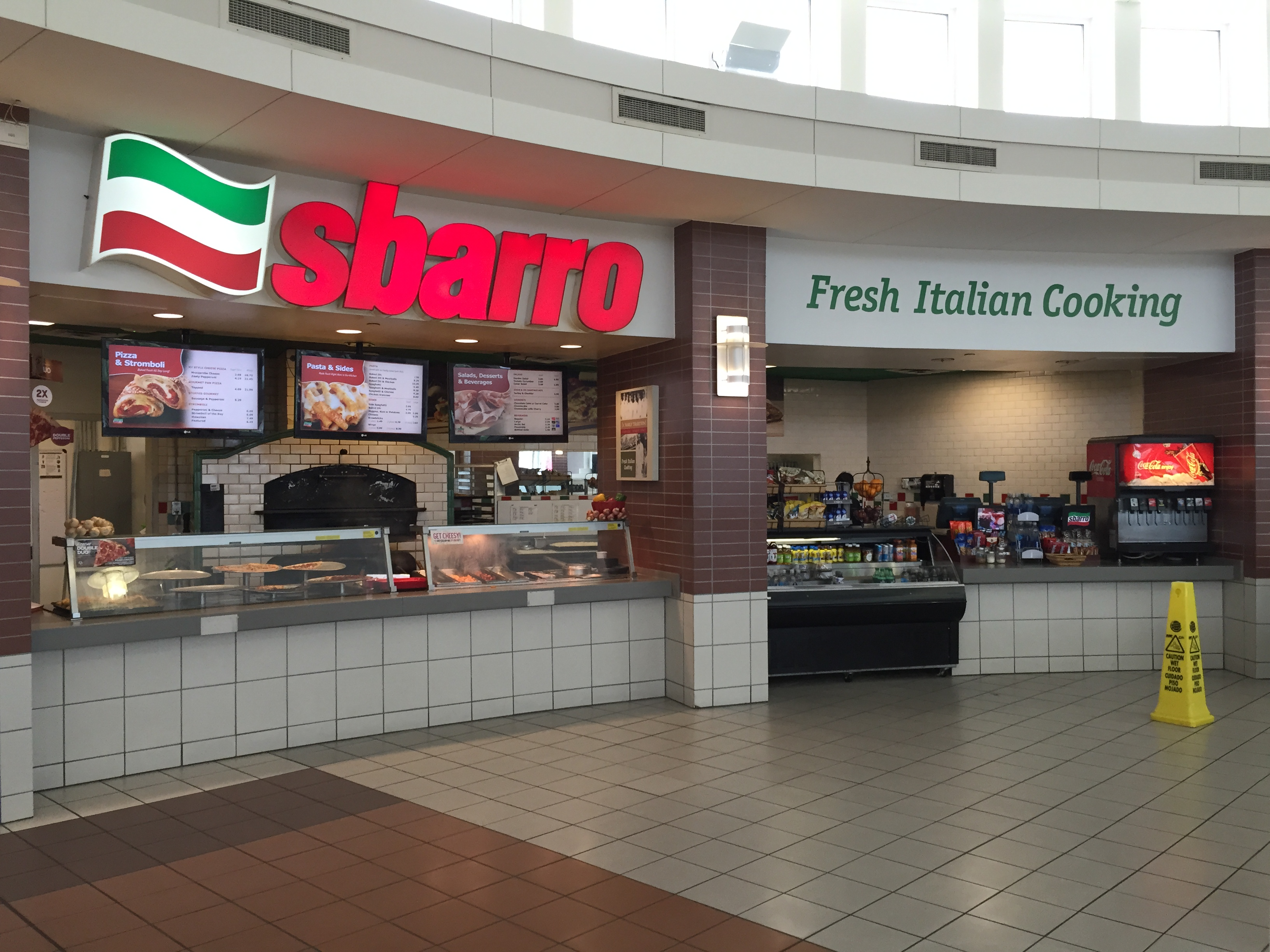 Sbarro restaurant at the Commodore Perry Service Plaza along the Ohio Turnpike (Interstates 80 and 90) in Riley Township, Sandusky County, Ohio